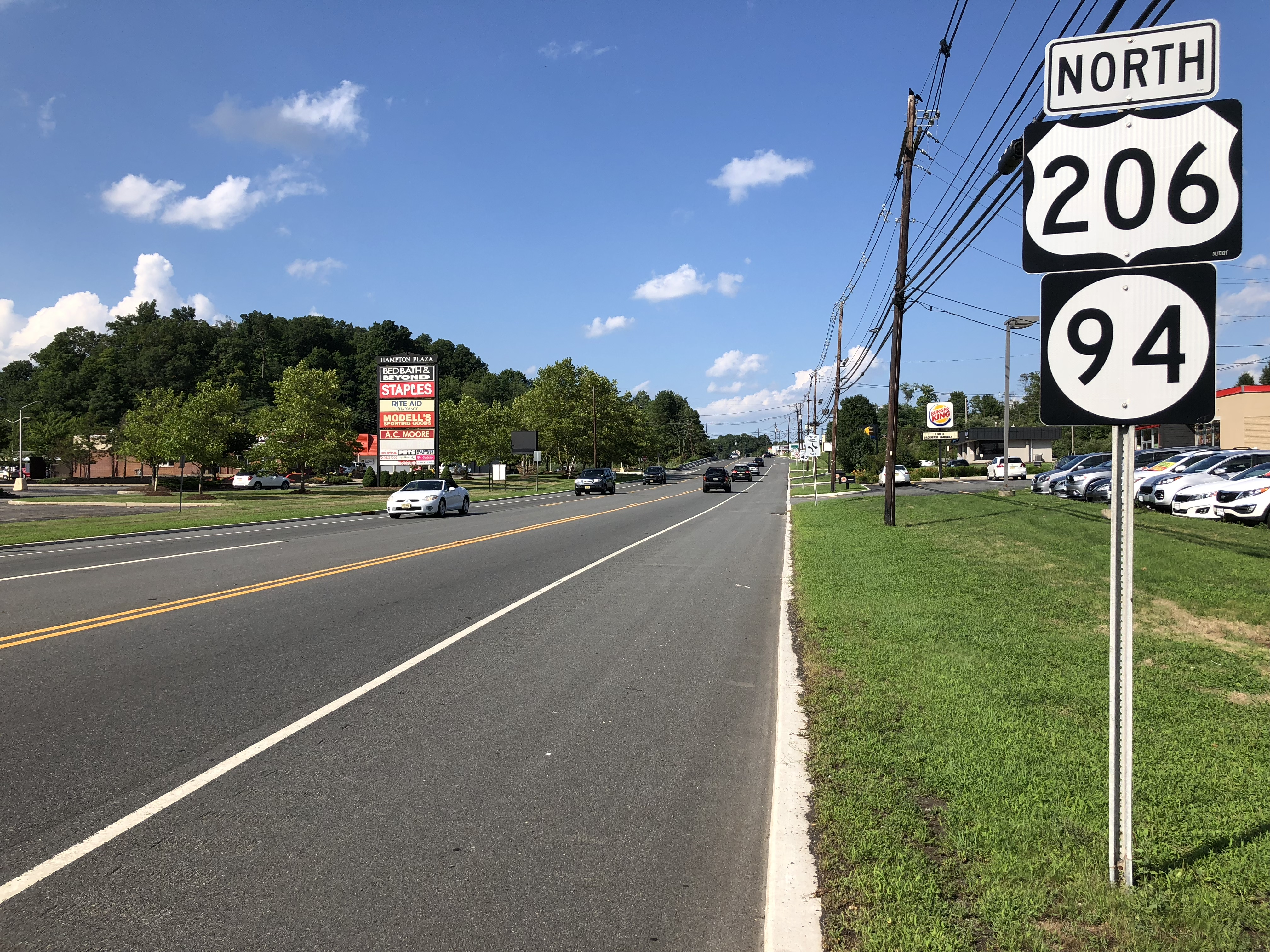 View north along U.S. Route 206 and New Jersey State Route 94 (Hampton House Road) between Park Drive and Cherry Lane in Hampton Township, Sussex County, New Jersey